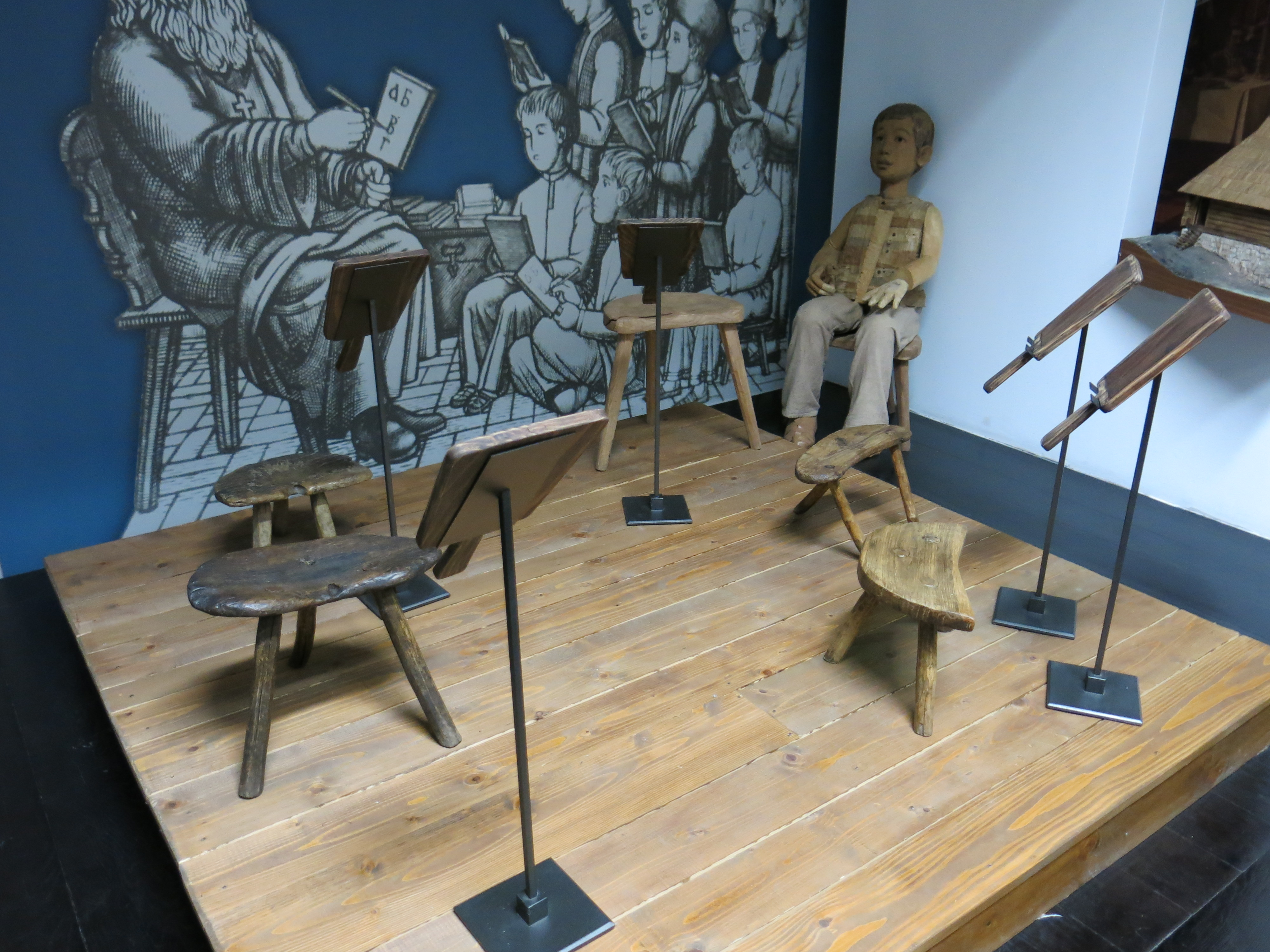 Educational Museum in Belgrade